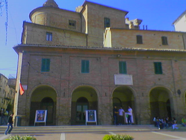 Filottrano1